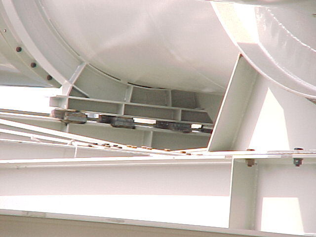 Photo of Duct Saddle Support